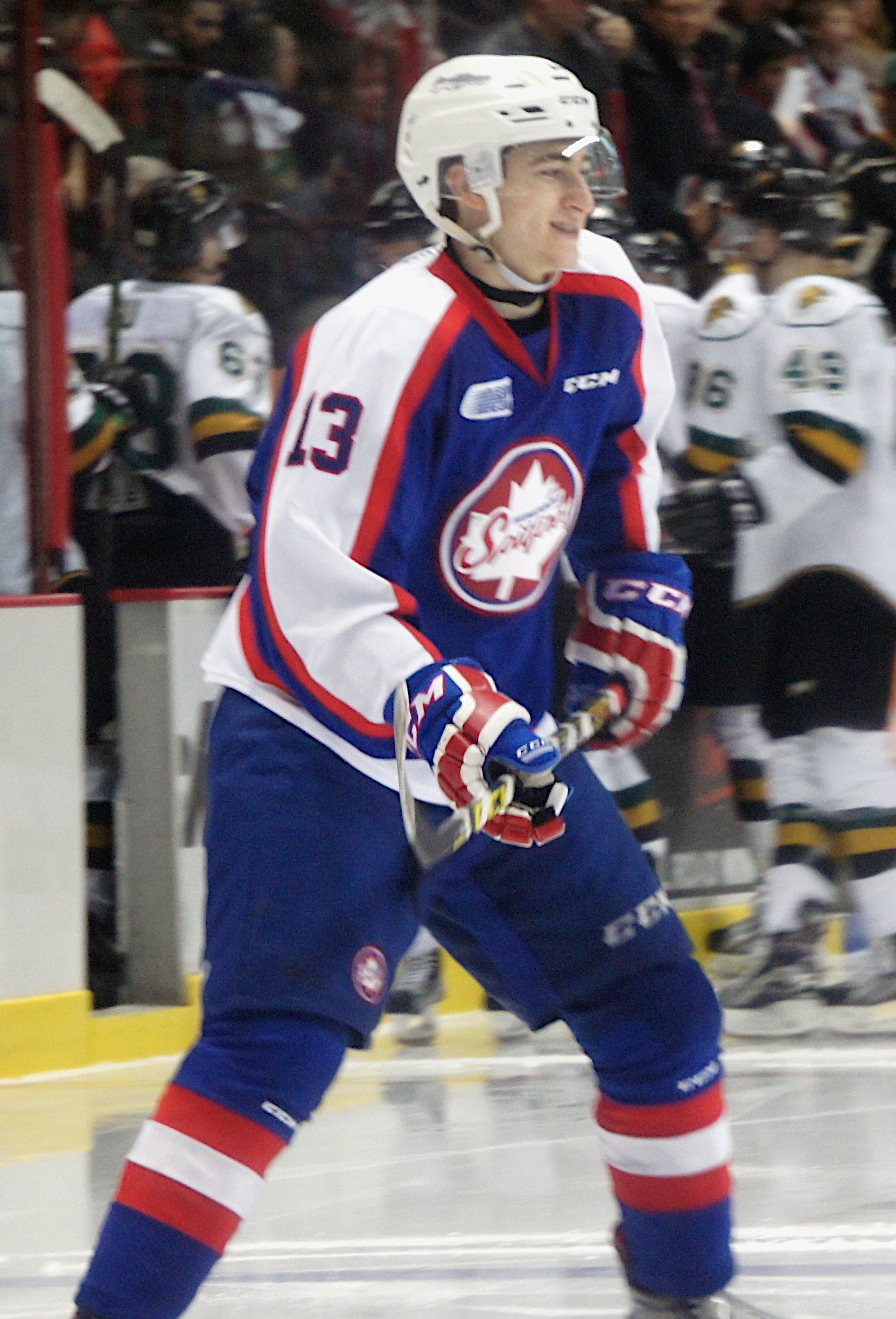 Gabriel Vilardi playing for the Windsor Spitfires against the London Knights, Jan. 30, 2016